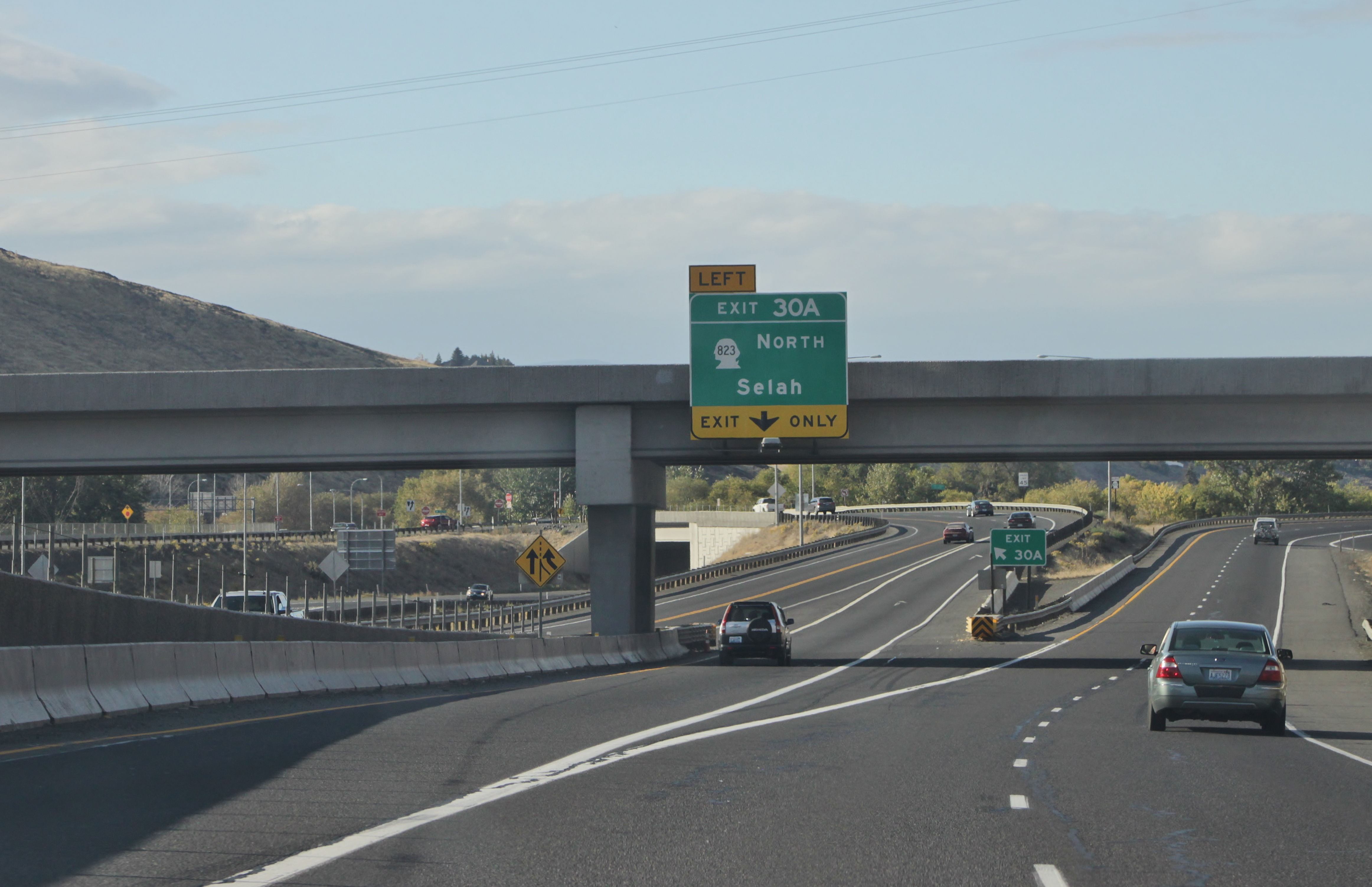 Looking westbound on Interstate 82 at an interchange with Washington State Route 823 in Selah.